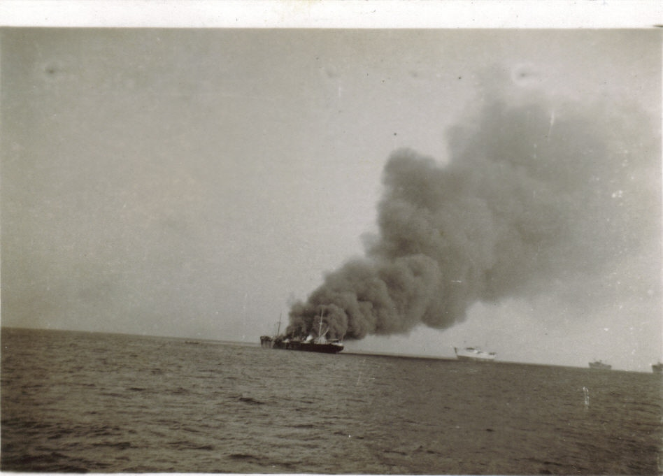 SS Tacoma burning after being hit by British naval shellfire. 6 Danish seamen killed.